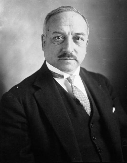 Portrait of the Occitan politician Carles Guilhaumon